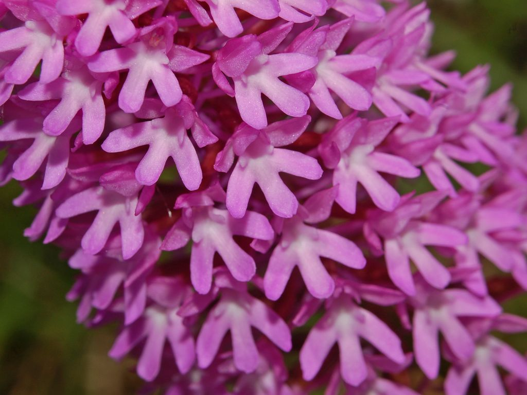 Anacamptis pyramidalis - Genova, Italy